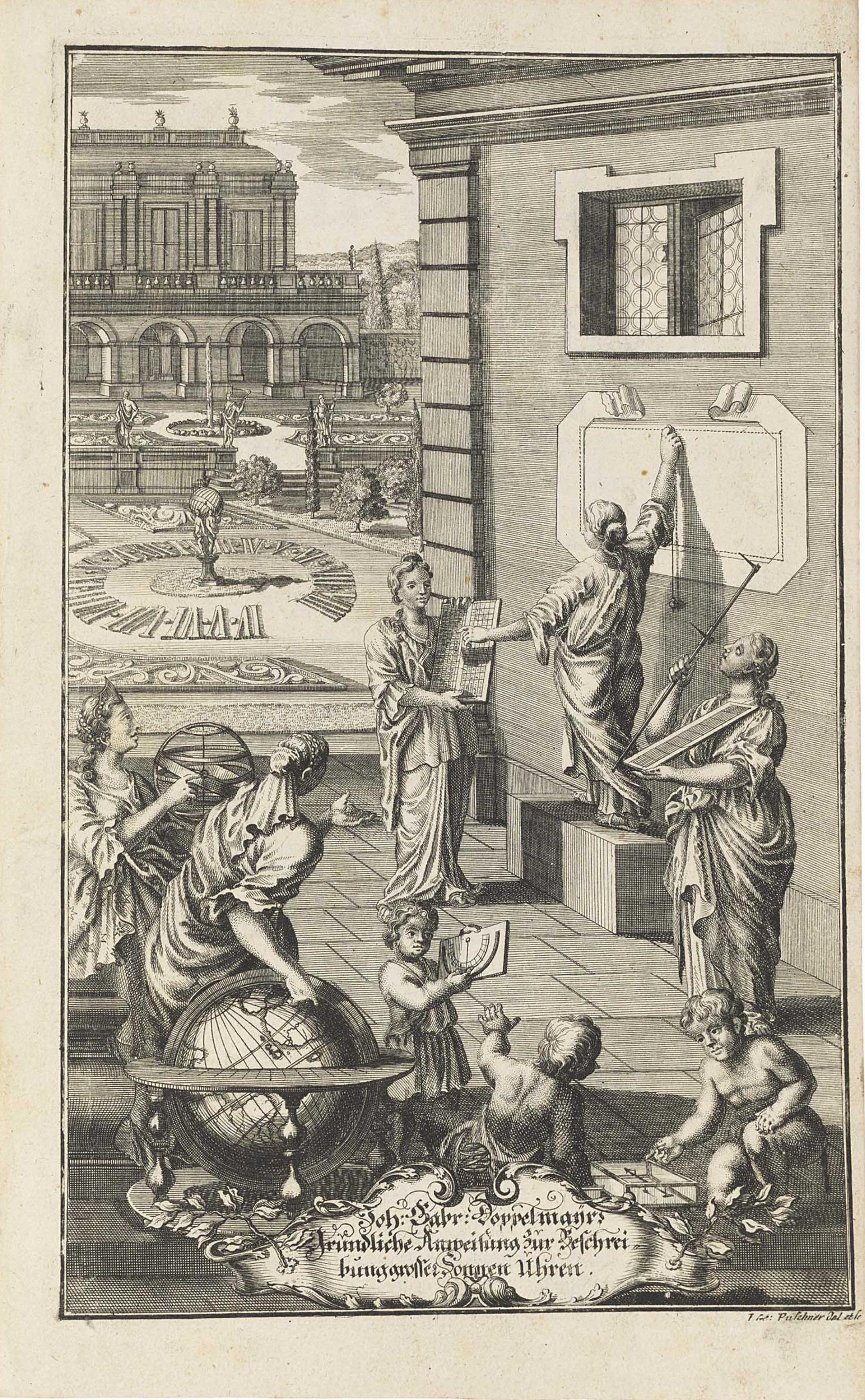 Frontispice from "Neue und grundliche Anweisung, wie nach einer universalen Methode grosse Sonnen-Uhren". Doppelmayr was a German astronomer, geographer and cartographer whose scientific abilities were held in such high esteem that he was a member of the Academia Caesarea Leopoldina, the academies of Berlin and St Petersburg, and the Royal Society in London. The basis of this book was a treatise on sundials by Eberhard Welper first published 1625, which Doppelmayr greatly expanded. The double-page plate shows a double-hemisphere world map showing California as an island.